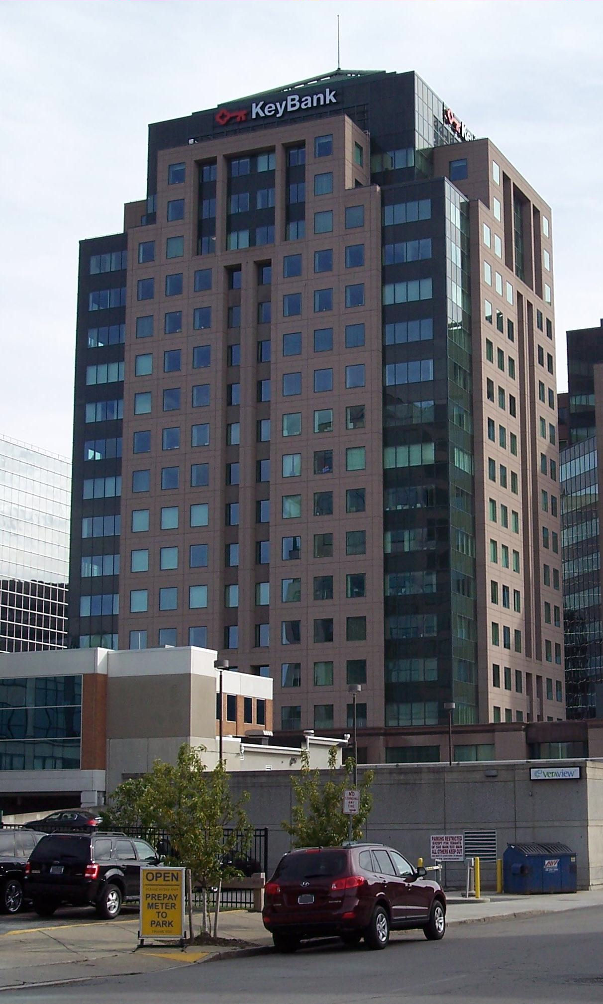 Key Center North Tower, 50 Fountain Plaza, Buffalo NY (Erie County) United States